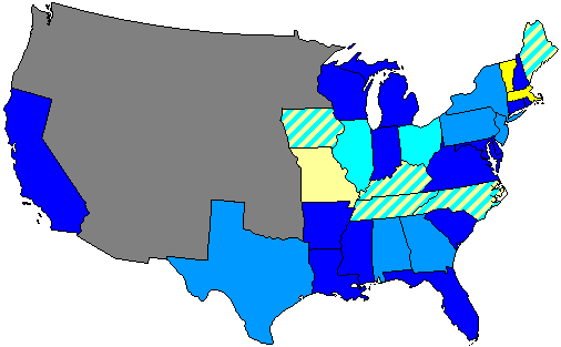 Summary of party control of U.S. house seats in the 33rd United States Congress following election. Stripes indicate a tie between two or more parties. Legend: 80.1-100% Democratic seat majority 60.1-80% Democratic seat majority 60% or less Democratic seat plurality 60% or less Whig seat plurality 60.1-80% Whig seat majority 80.1-100% Whig seat majority